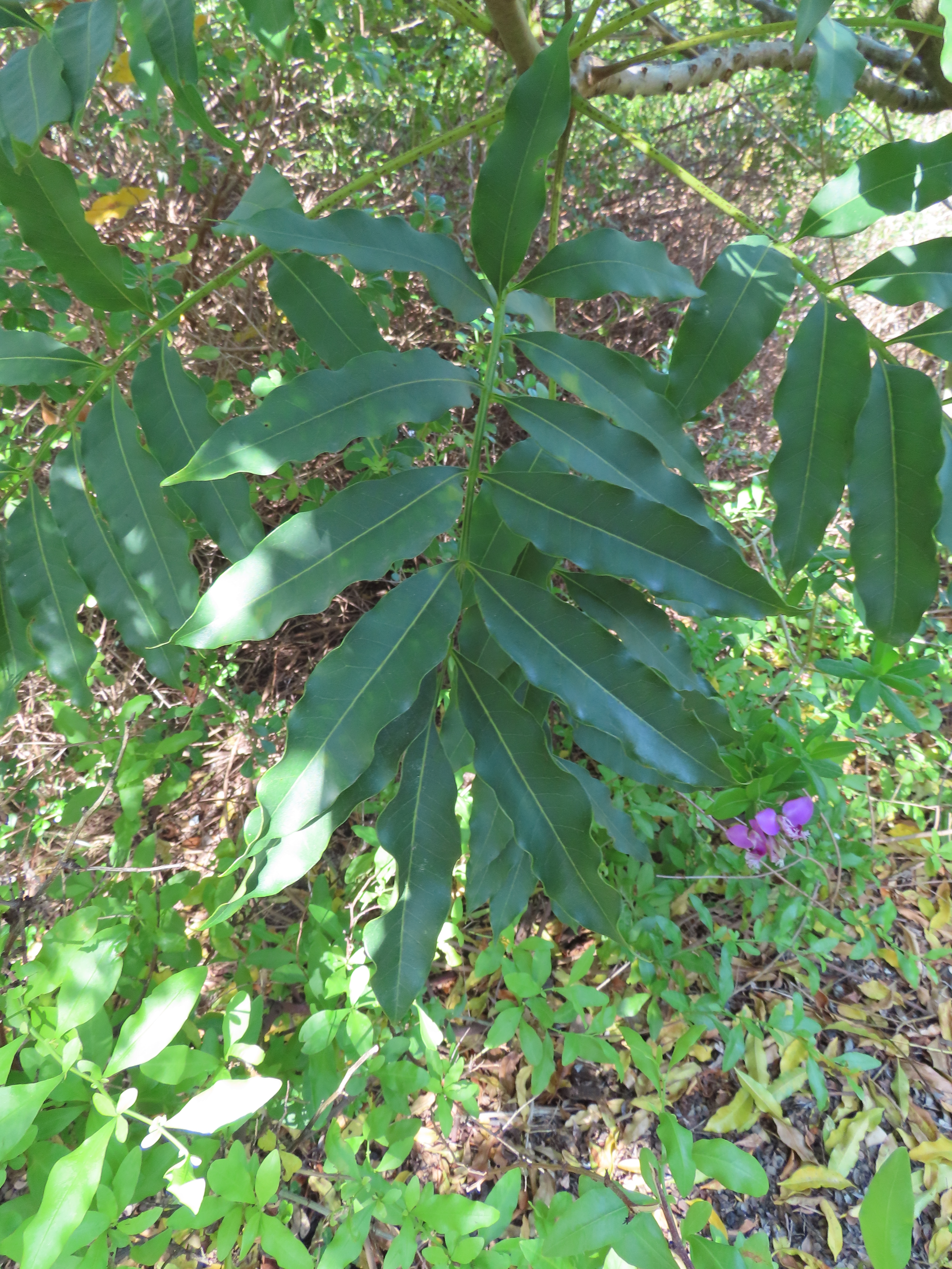 Simply pinnate leaf of Ekebergia capensis